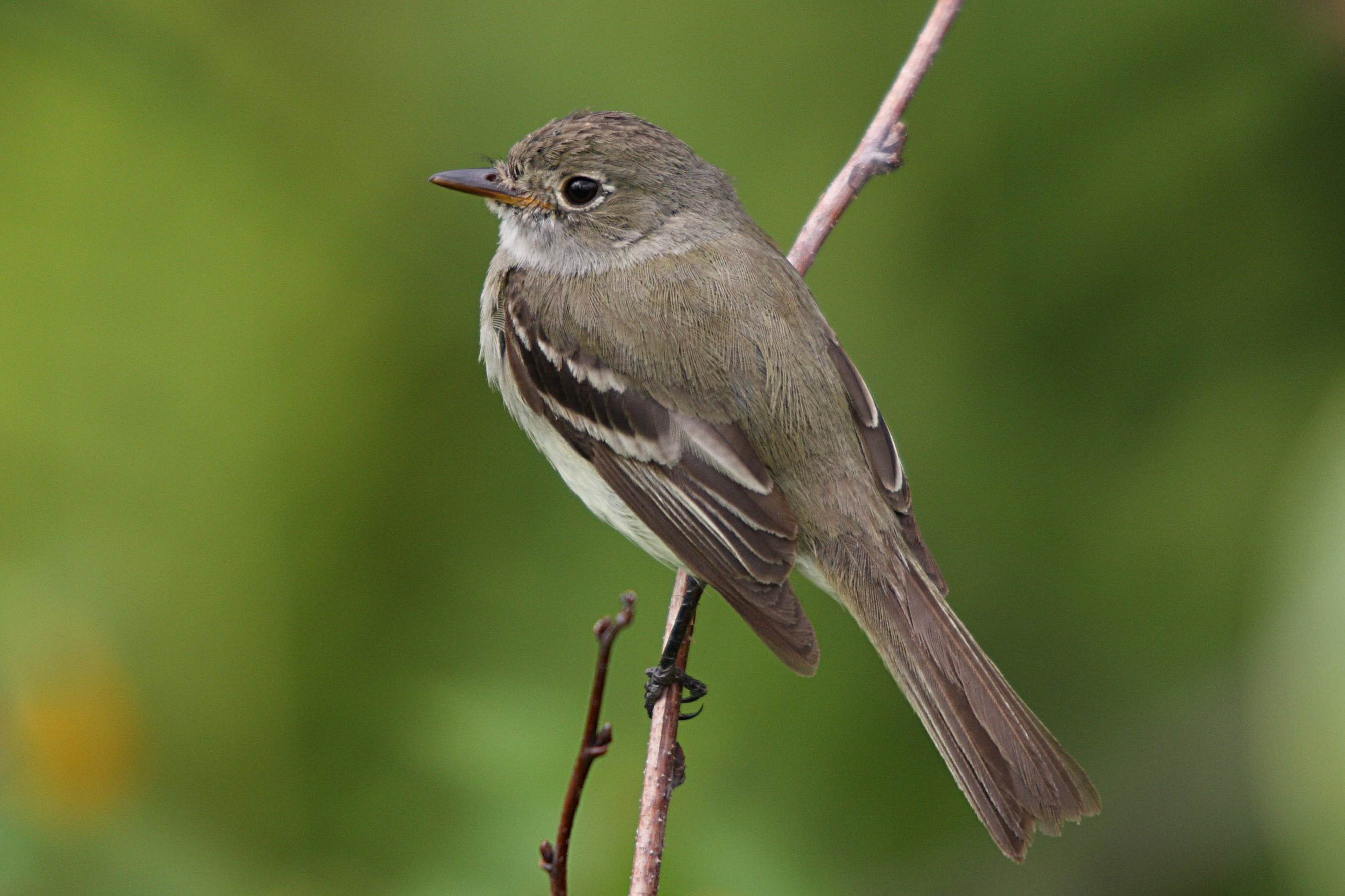 Alder Flycatcher, immature, Cap Tourmente National Wildlife Area, Quebec, Canada